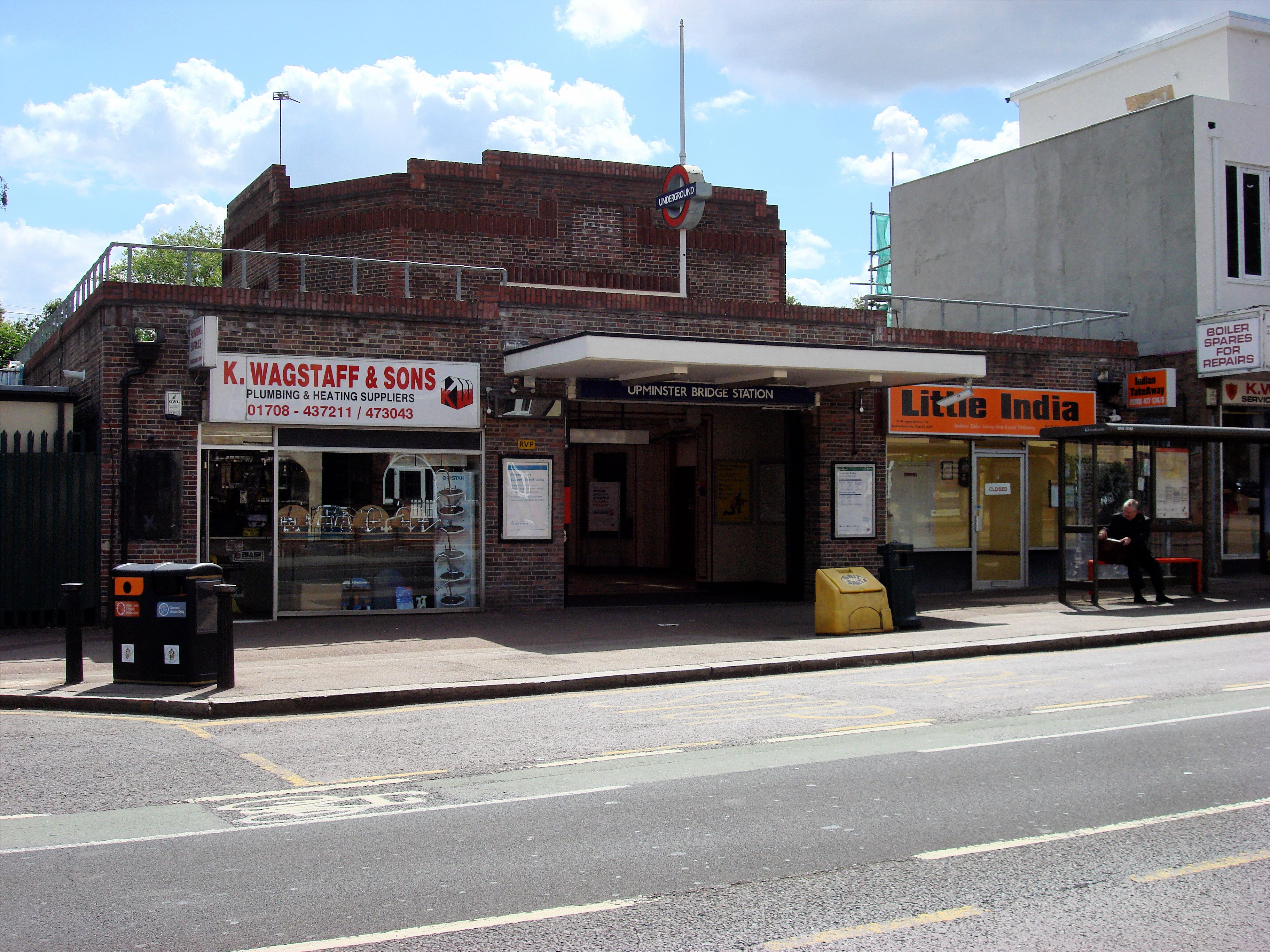 Upminster Bridge tube station, main building